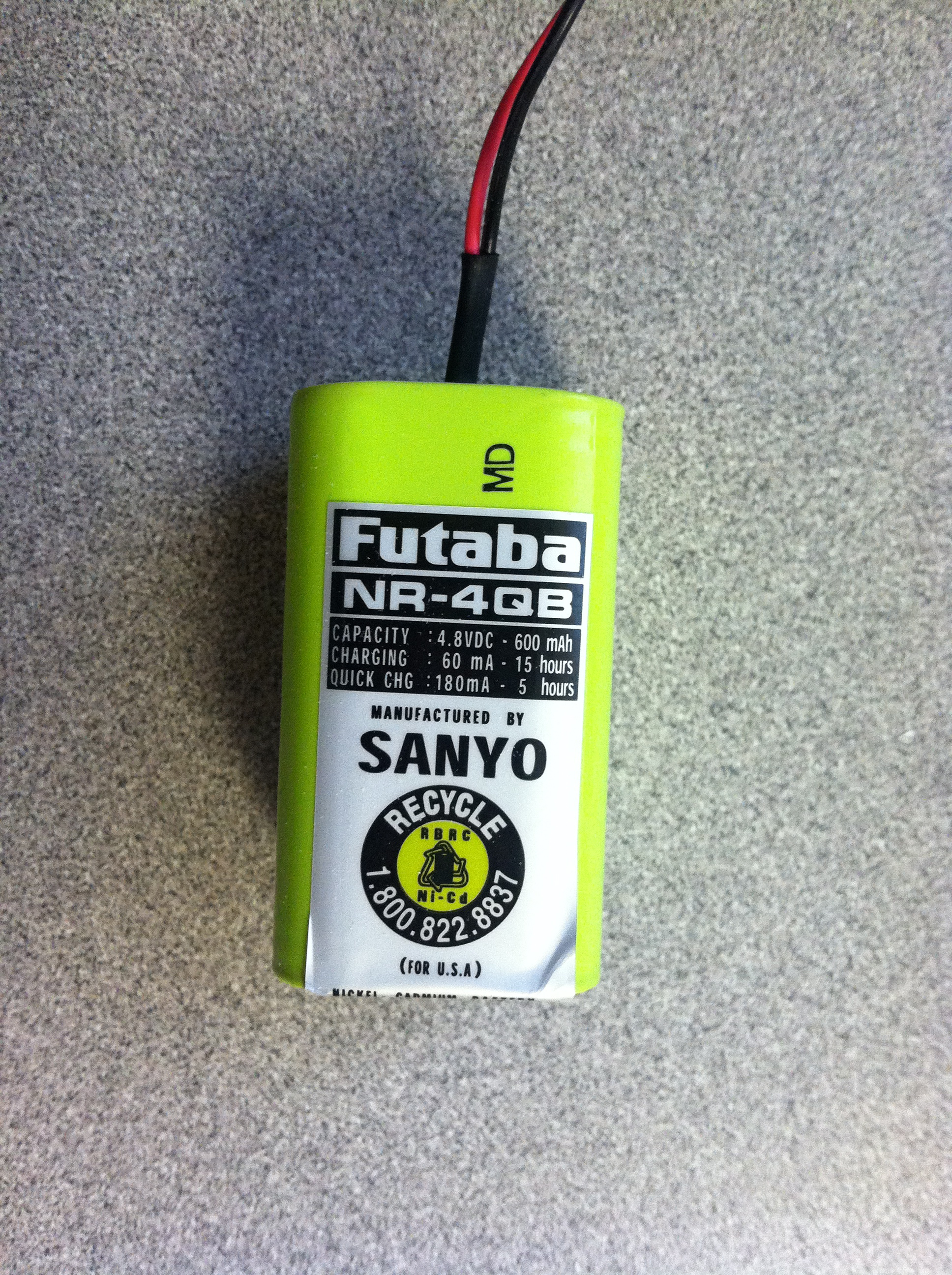 This is one of the three types of batteries that we are concerned about storing.